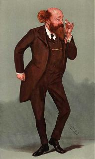 Caricature of The Earl of Portsmouth. Caption read "The Demon".